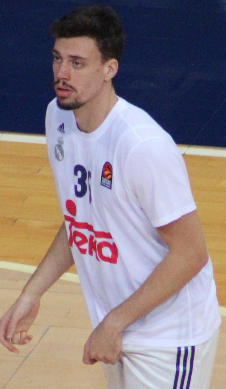 Álex Suárez 36 & Jeffery Taylor 44 Real Madrid Baloncesto Euroleague 20161201